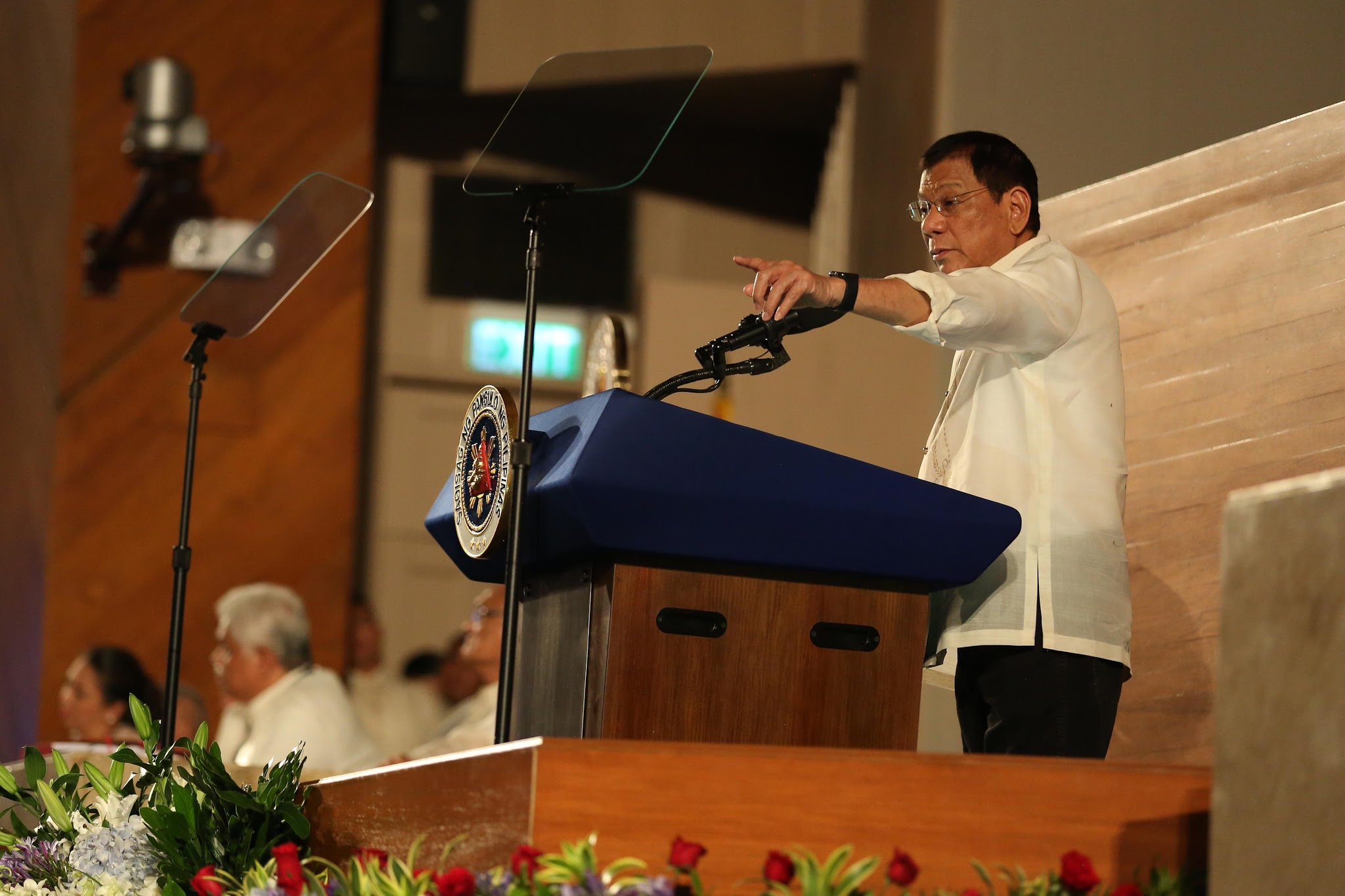 Philippine President Rodrigo Roa Duterte delivering his first State of the Nation Address at Batasang Pambansa on July 25.